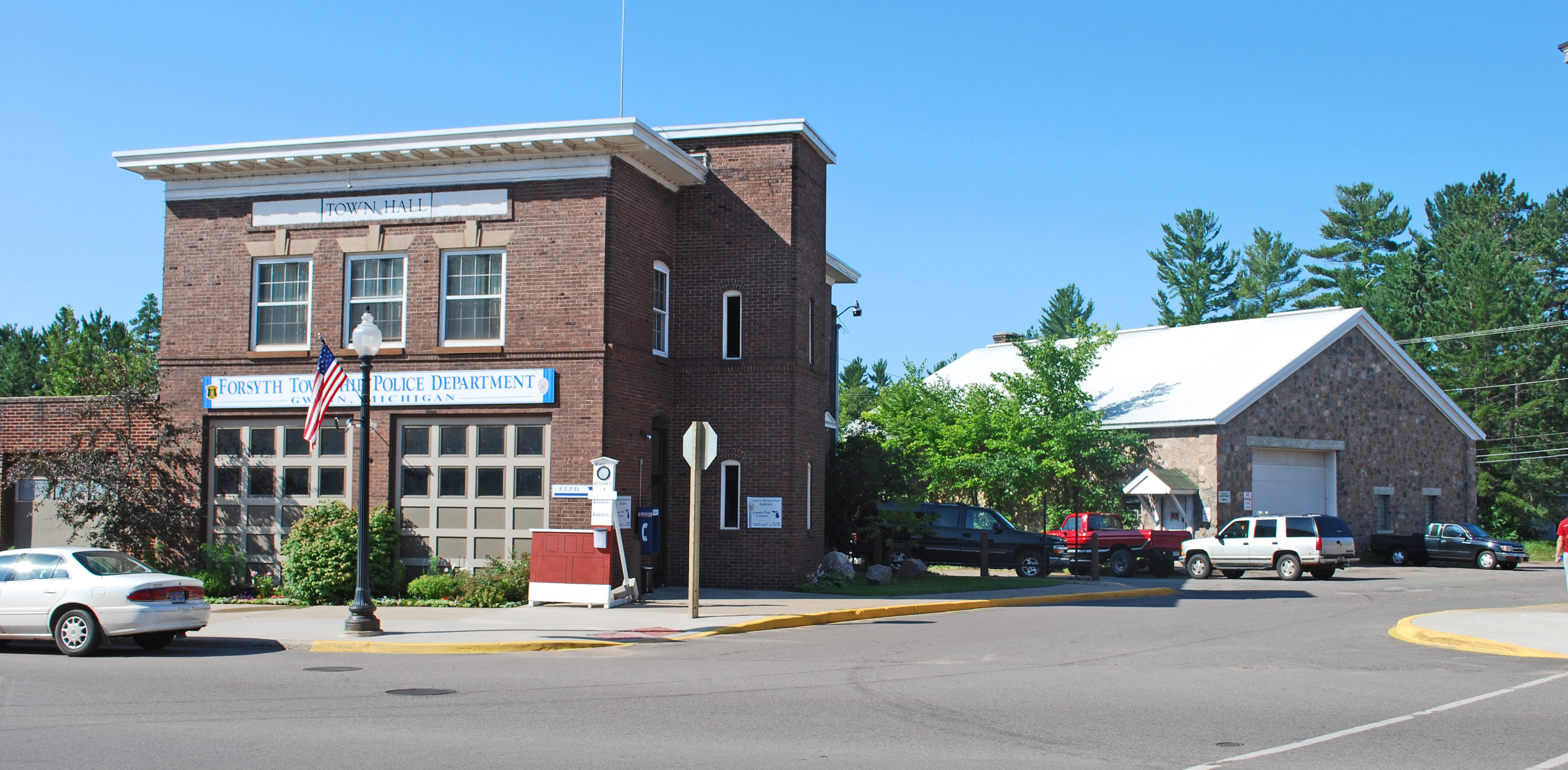 Gwinn Model Town Historic District--fire house